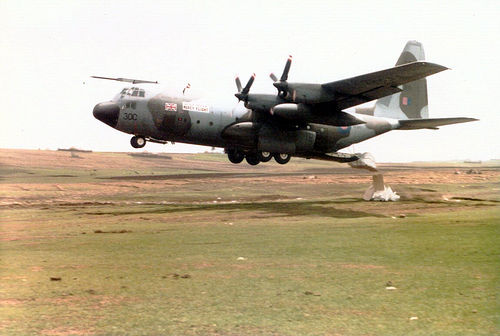 Photo i took whilst serving with 47 Air Despatch Squadron RCT in Ethiopia in 1985. Talskiddy 19:46, 3 November 2007 (UTC)